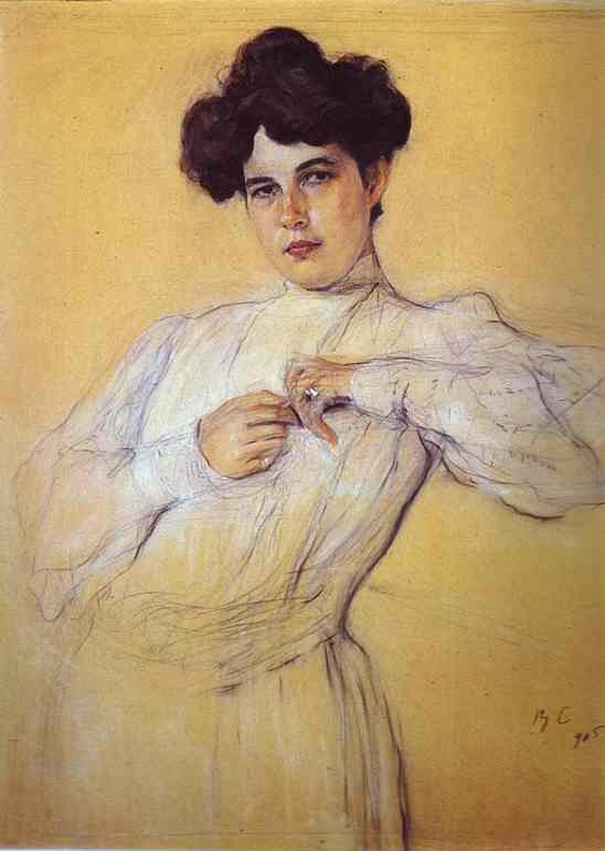 Portrait of Maria Botkina